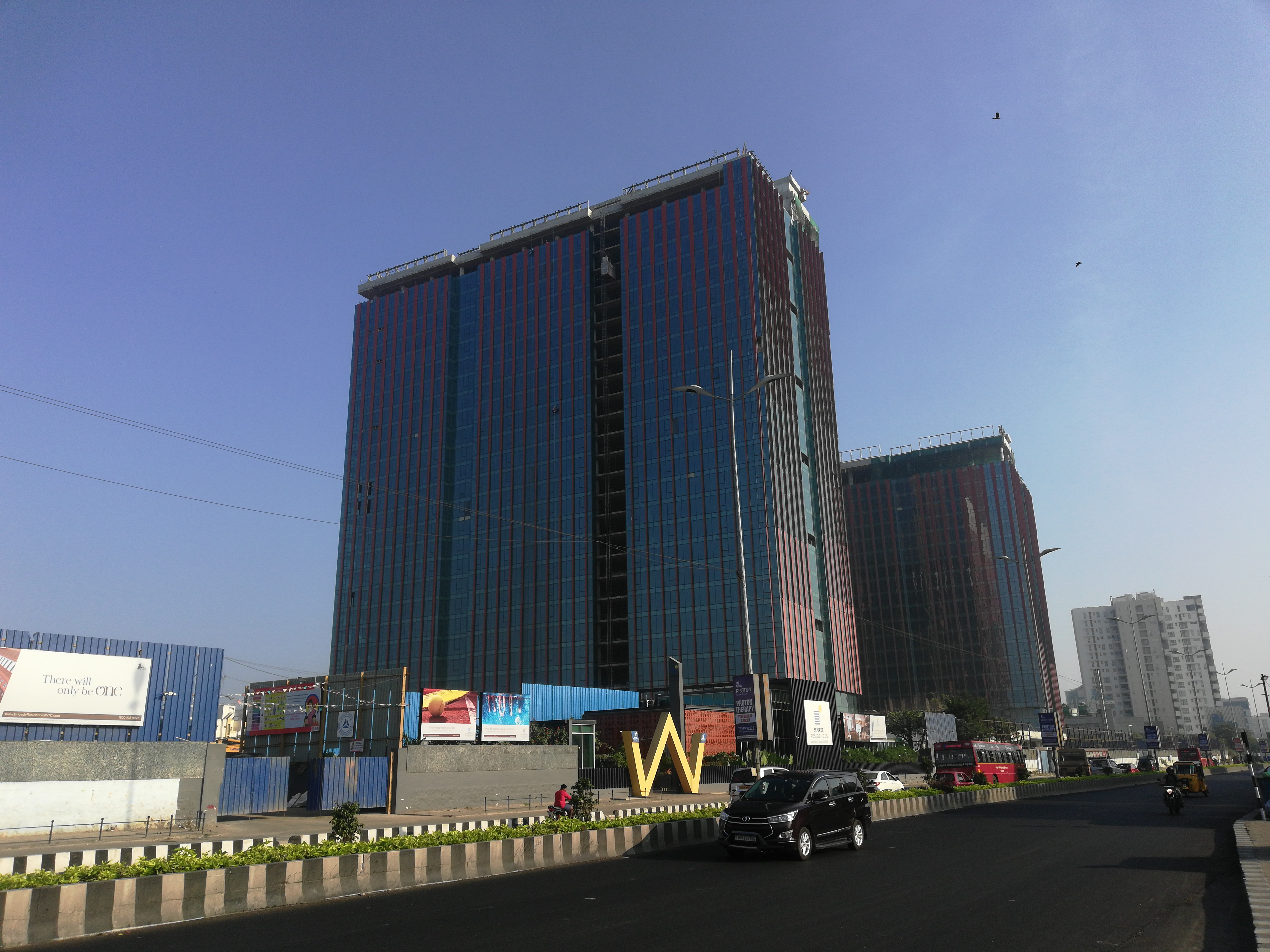 Picture taken on 19 Mar 2020 morning